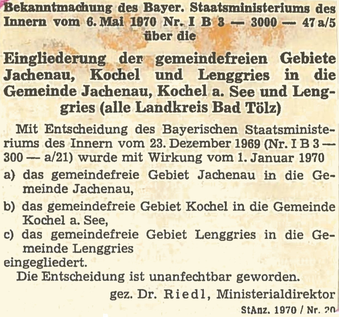 Bavarian Government announcement of incorporation of forest areas into the municipalities Jachenau, Kochel am See and Lenggries, Upper Bavaria